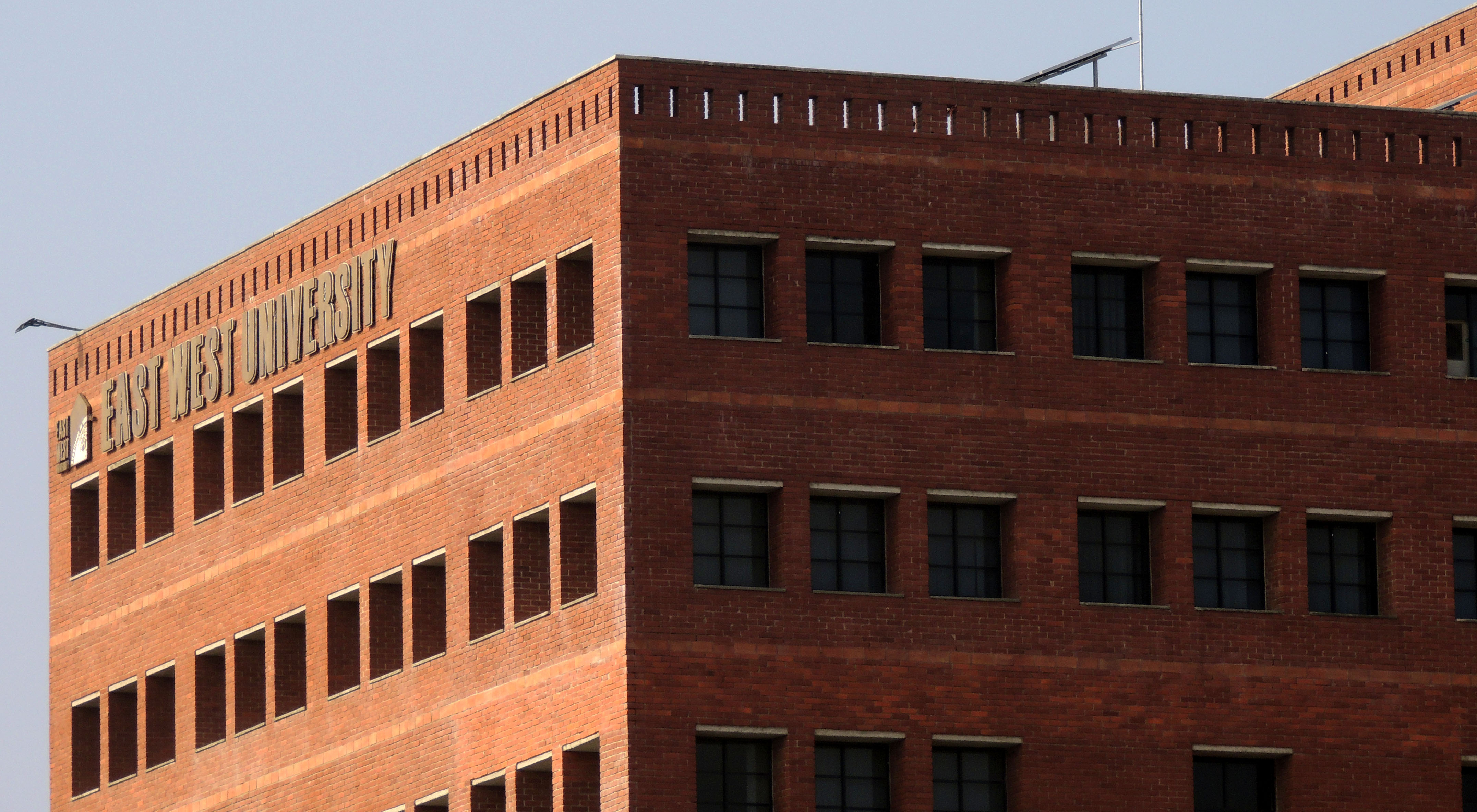 East West University, Dhaka